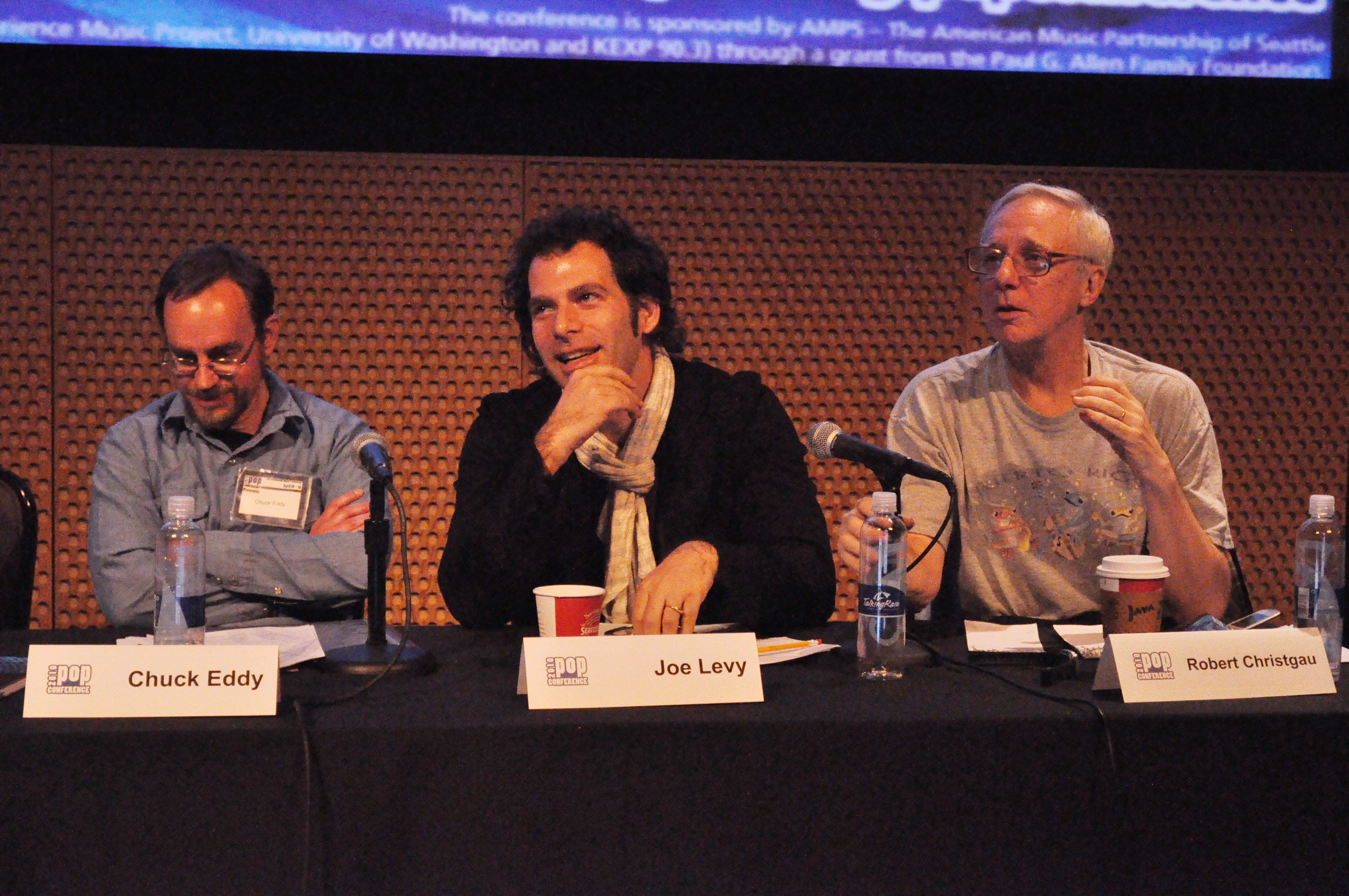 Part of "Music in the '00s" panel, 2010 Pop Conference, EMPSFM, Seattle, Washington. Left to right: Chuck Eddy, Joe Levy, Robert Christgau.